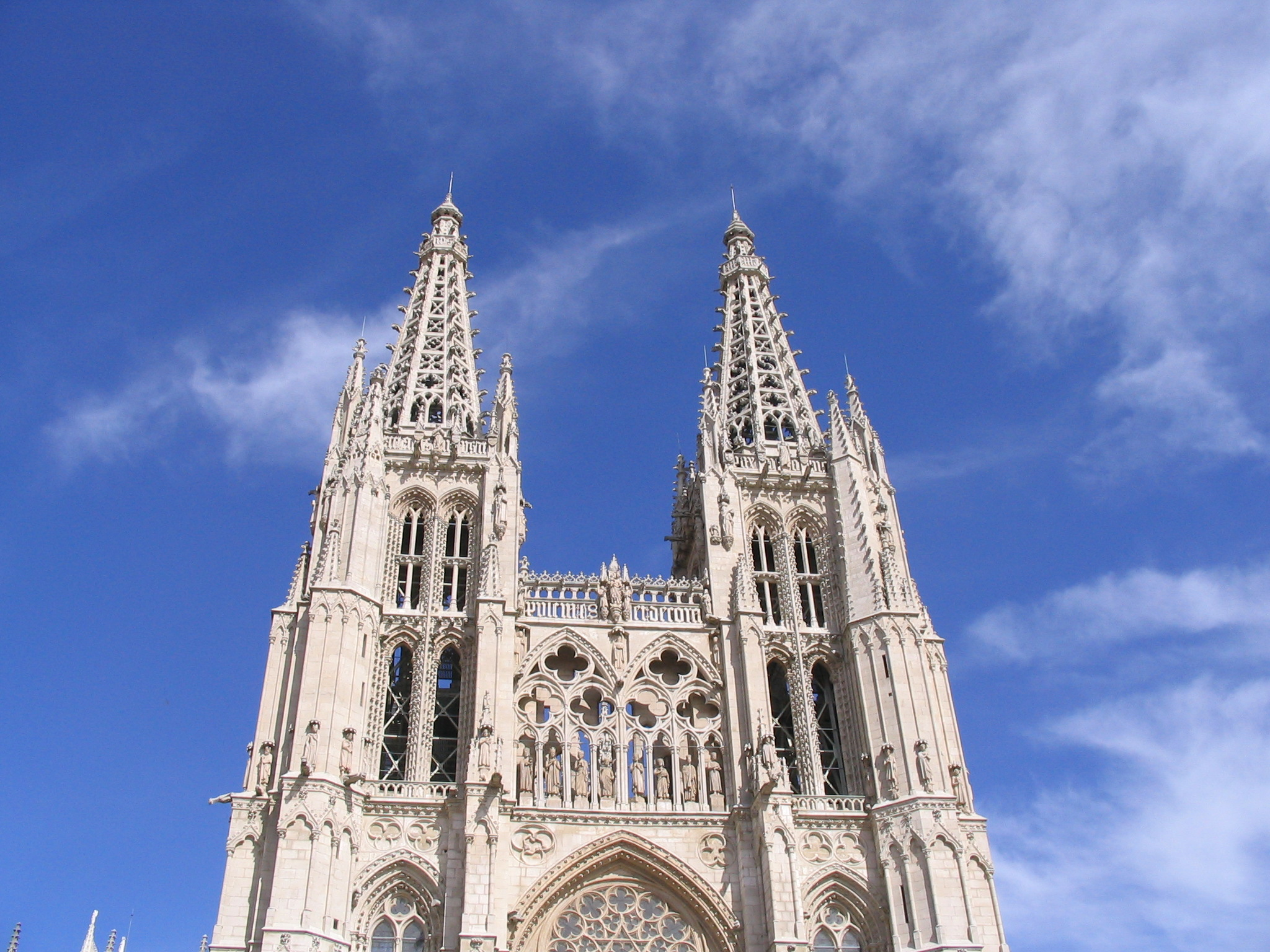 View of Burgos Cathedral Needles. Taken by Daniel Canton on 3-5-2004.